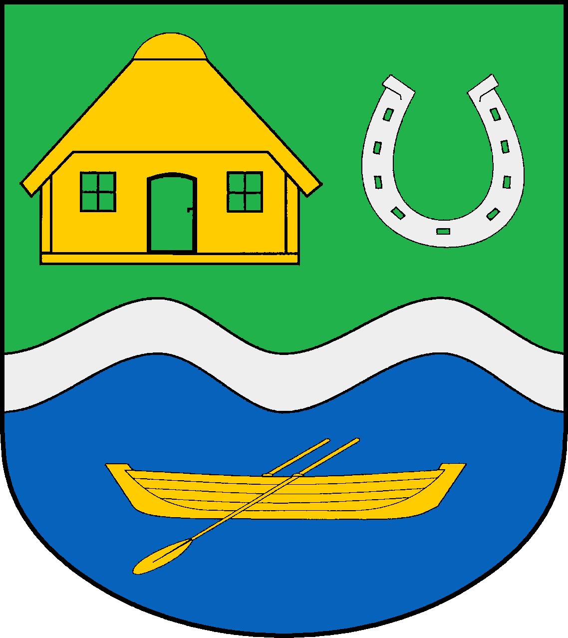 Coat of arms of the municipality Groß Sarau in Schleswig-Holstein, Germany.